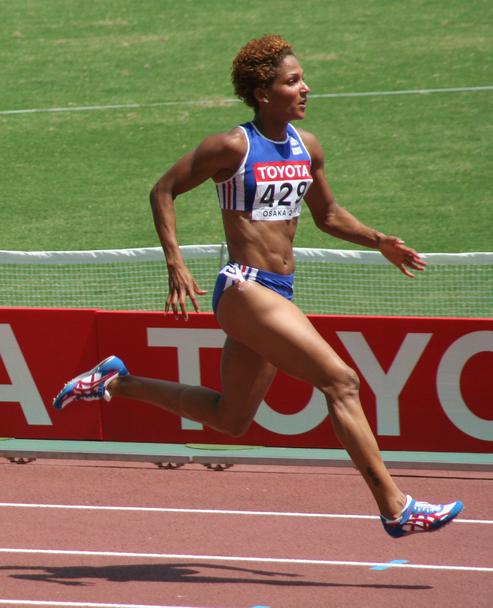 World Athletics Championships 2007 in Osaka - French 100 Meter runner Christine Arron during her first round heat